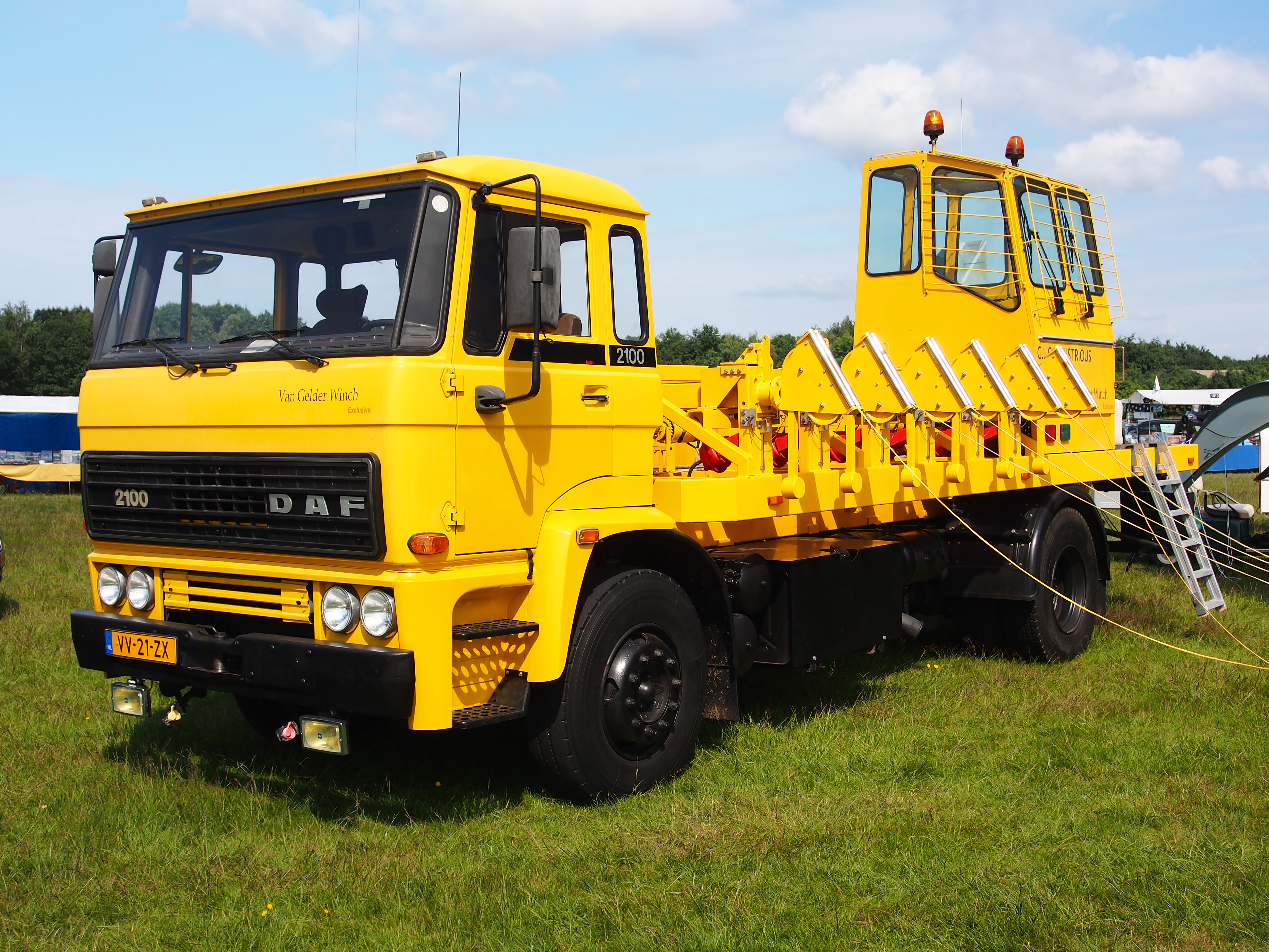 1983 DAF FA 2105 DH445 with a Van Gelder winch, 115kW (156PS) and 18 ton GVW on a 445cm wheelbase. Photographed at Gilze-Rijen Air Base (IATA=GLZ, ICAO=EHGR), the Netherlands.